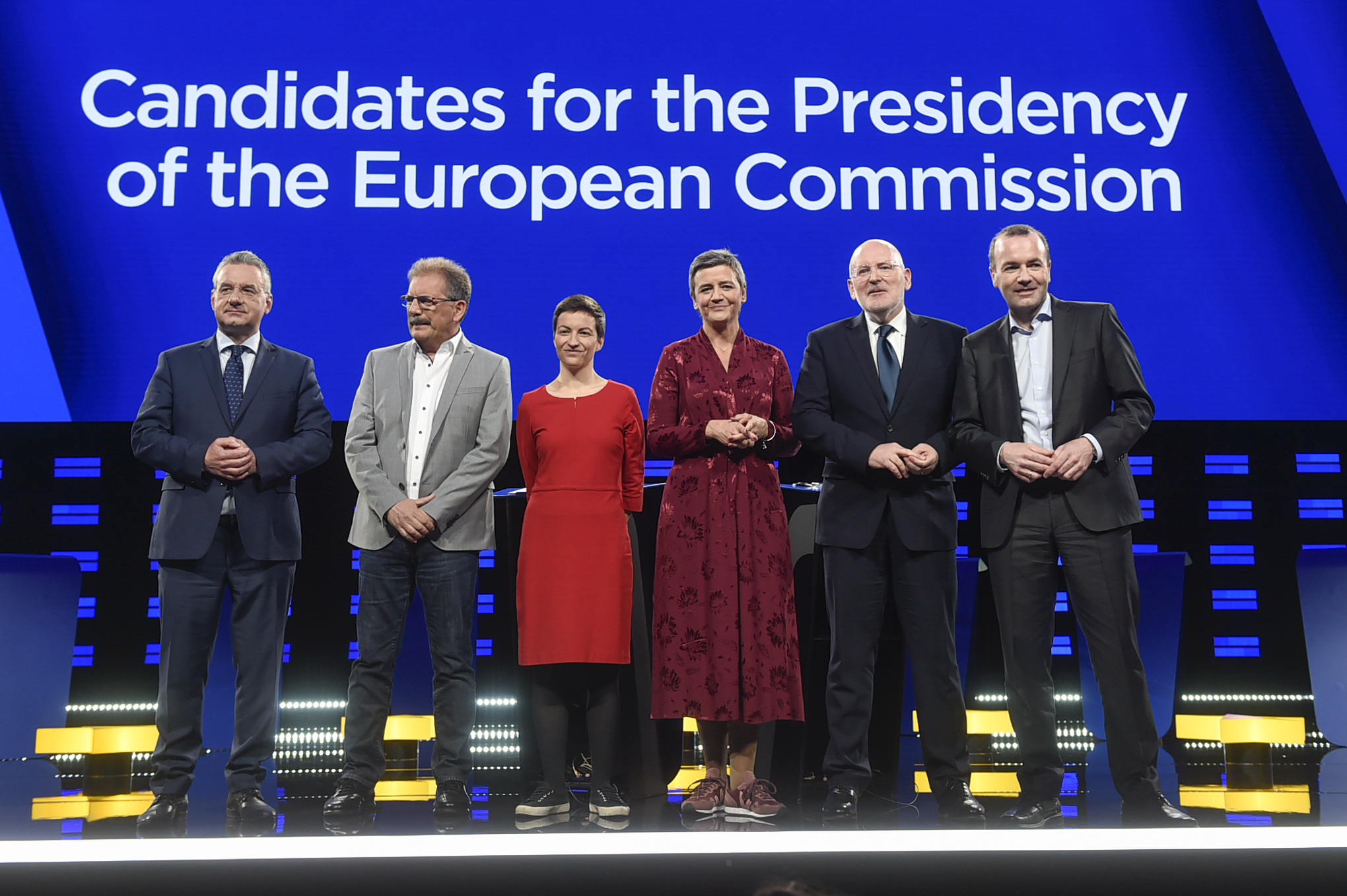 The live debate will be moderated by TV anchors Markus Preiss (ARD WDR), Emilie Tran-Nguyen (France Télévisions) and Annastiina Heikkilä (Yle) and broadcast by the EBU's public service media members and others throughout Europe. TellEurope & watch the full video here @ Speaking order for lead candidates is: Nico CUÉ, European Left (EL) Ska KELLER, European Green Party (EGP) Jan ZAHRADIL, Alliance of Conservatives and Reformists in Europe (ACRE) Margrethe VESTAGER, Alliance of Liberals and Democrats for Europe (ALDE) Manfred WEBER, European People’s Party (EPP) Frans TIMMERMANS, Party of European Socialists (PES) This photo is free to use under Creative Commons license CC-BY-4.0 and must be credited: "CC-BY-4.0: © European Union 2019 – Source: EP". No model release form if applicable. For bigger HR files please contact: webcom-flickr(AT)